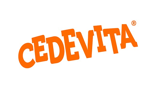 Cedevita logo